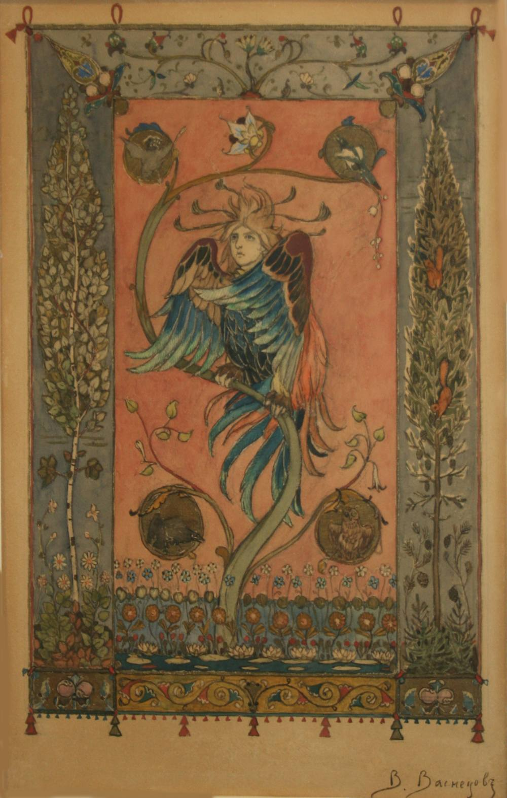 Gamaun, The prophetic bird, 1895